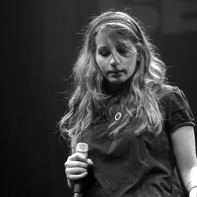 Coralie Clément in concert in São Paulo (city), Brazil in June 2009